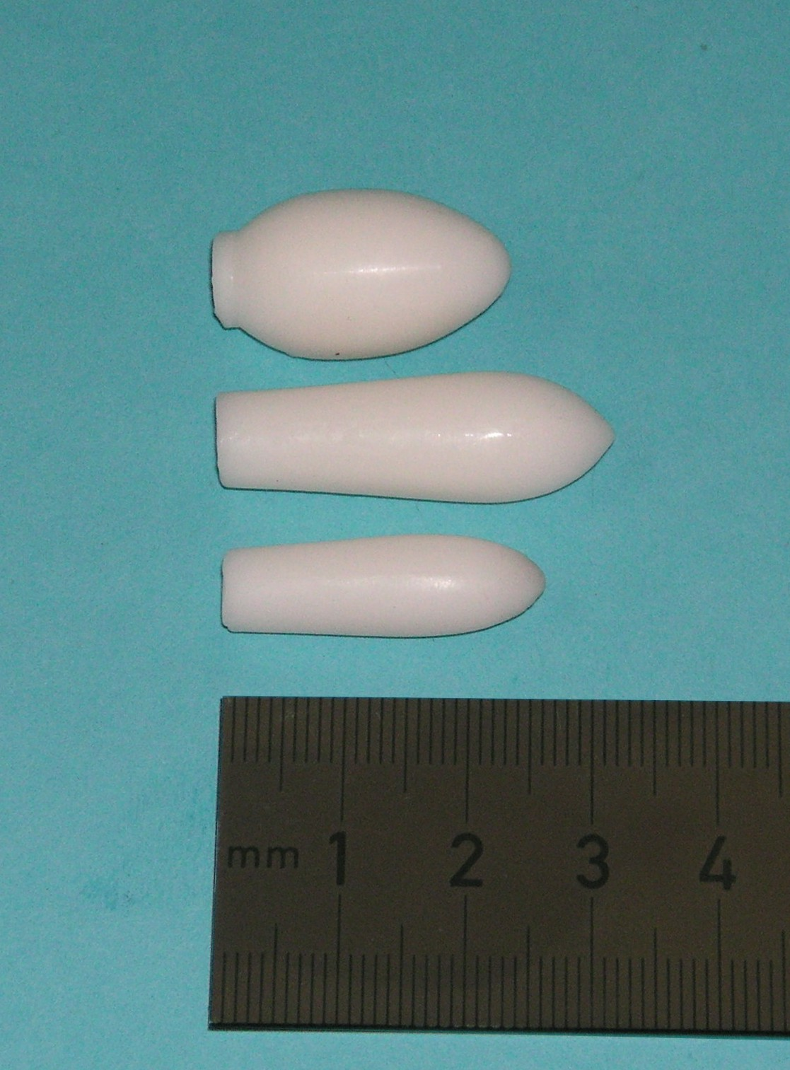 Suppositories in three differenz sizes. Showing from the top to the bottom a vaginal ovula (normal weight: 3 grams), a suppository for adults (normal weight: 2 grams) and a suppository for children (normal weight: 1 grams).